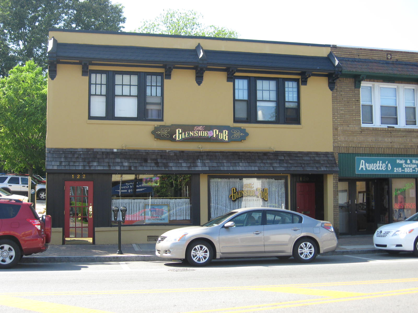 The Glenside Pub